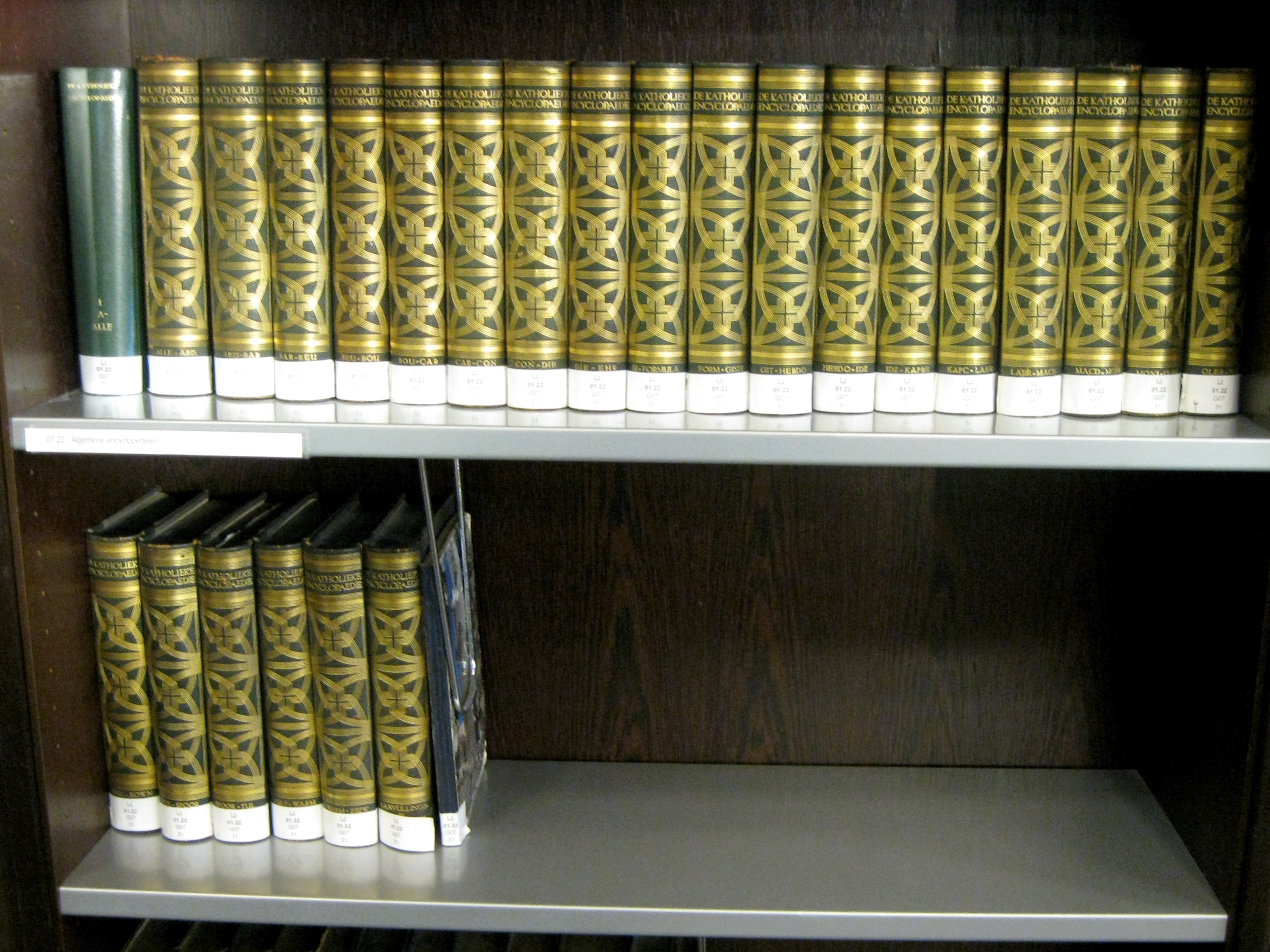 University library of Nijmegen: De Katholieke Encyclopedie 1933-1939